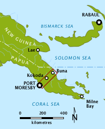 Shows key locations relating to Australian battles in New Guinea campaign, World War II, 1945, with the location of the Kokoda Trail highlighted with a red outline. This map may be incomplete, and may contain errors. Don't rely solely on it for navigation.